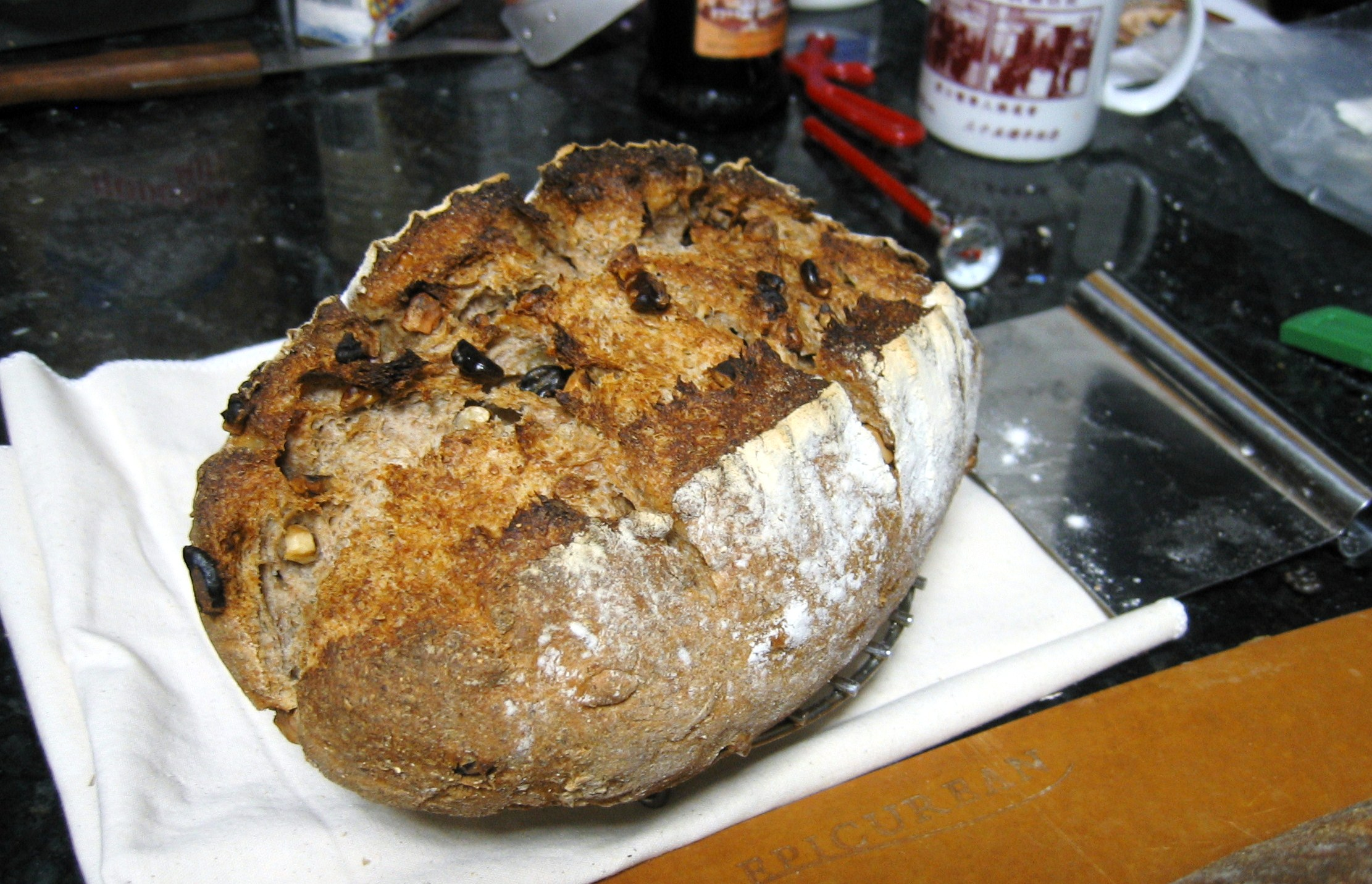 Hand-made Sourdough Rye loaf (50% stone-ground rye flour)